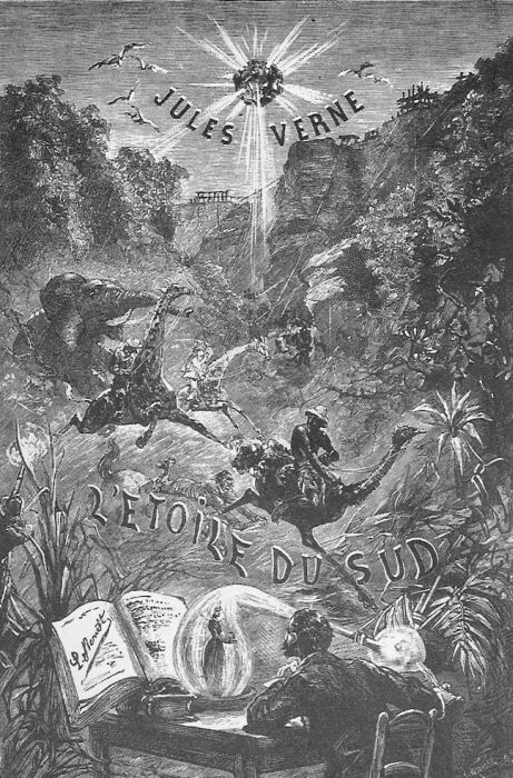 An illustration from Jules Verne's novel "The Vanished Diamond" (French: L'Étoile du sud, lit. The Star of the South, 1883) drawn by Léon Benett.